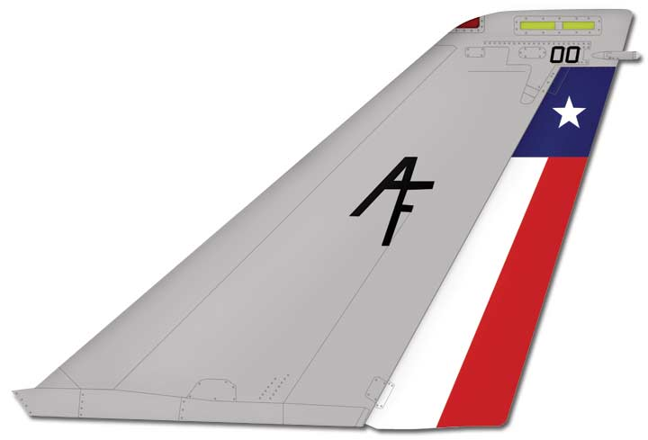 The tail of a US Navy F-14A Tomcat, belonging to VF-202, the "Superheats". Original created in Adobe Photoshop by Erik Hess in 2004.